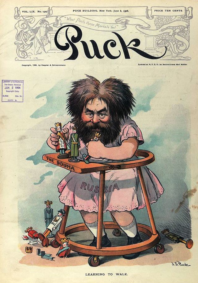 Learning to walk. Illustration shows a bearded, hairy man as an young child labeled "Russia" learning to walk with a walker labeled "The Douma" while playing with toy figures of royalty.